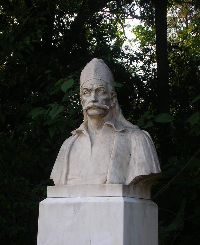 Monument of Georgios Karaiskakis, in Athens, own photo, Gepsimos 14:52, 14 May 2006 (UTC)